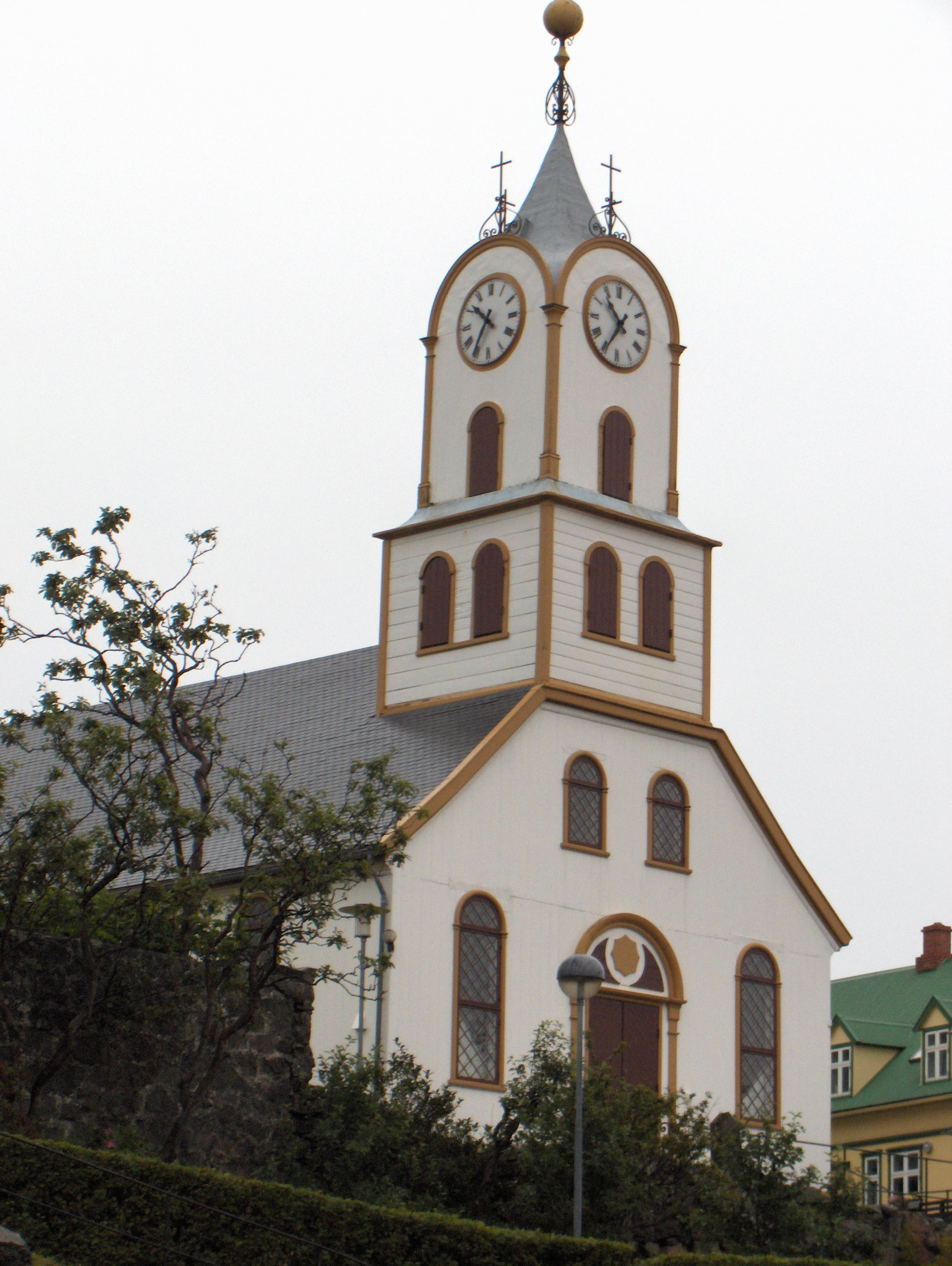 Torshavn Cathedral, Faroe Islands